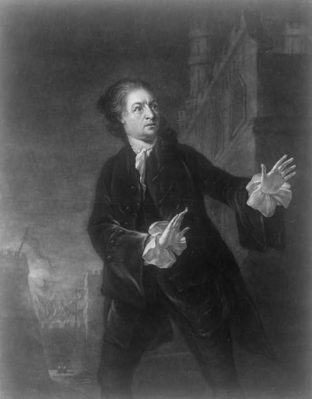 David Garrick (1717-1779) in Hamlet, Act 1, Scene 4. Engraving by James McArdell (1729-1765) after Benjamin Wilson (1721-1788). Mezzotint.